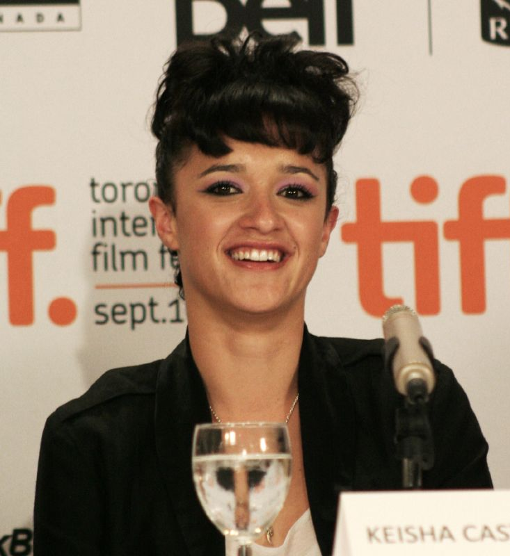 New Zealand actress Keisha Castle-Hughes at the press conference for The Vintner's Luck